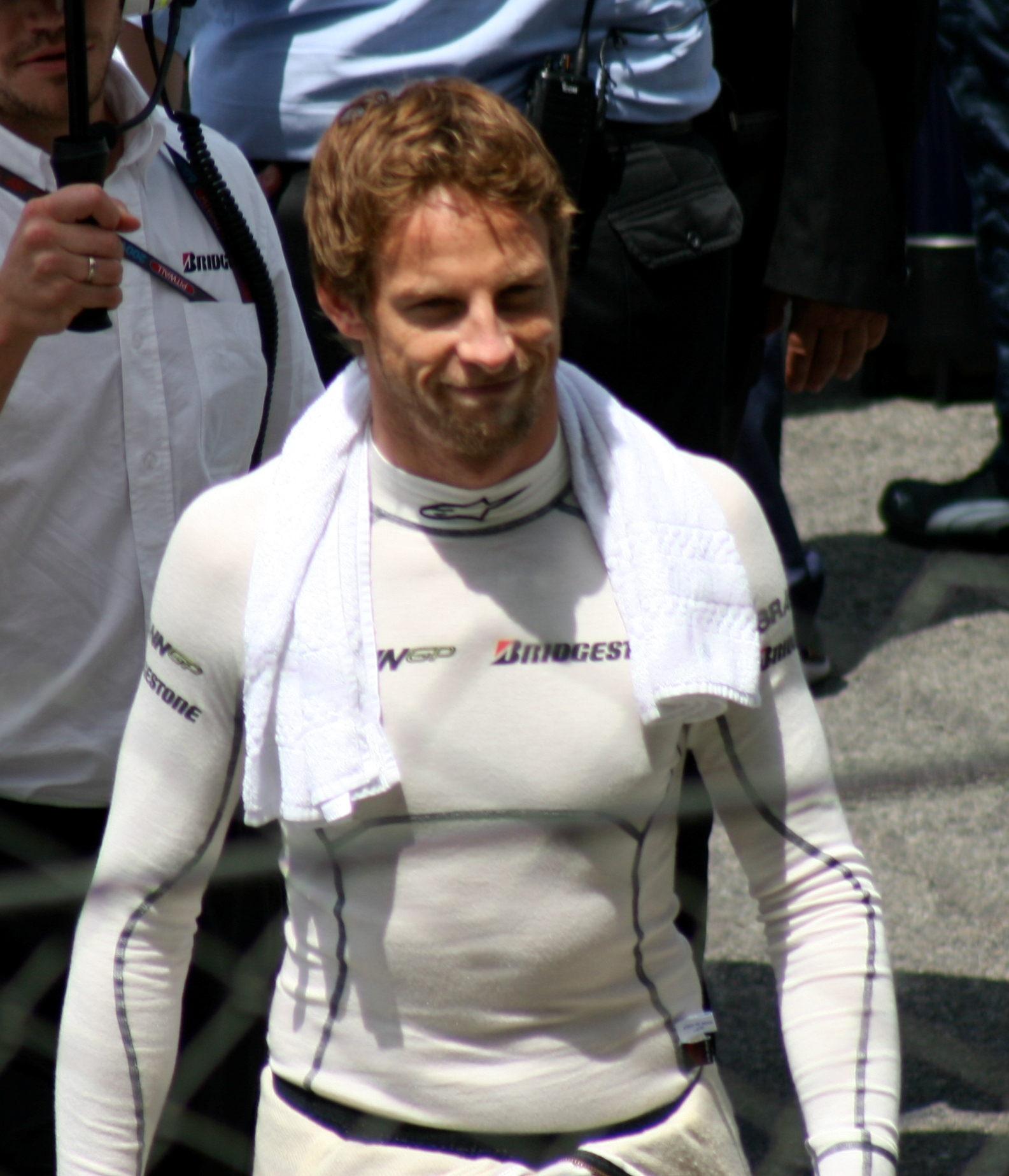 Crop of a very fit Jense!